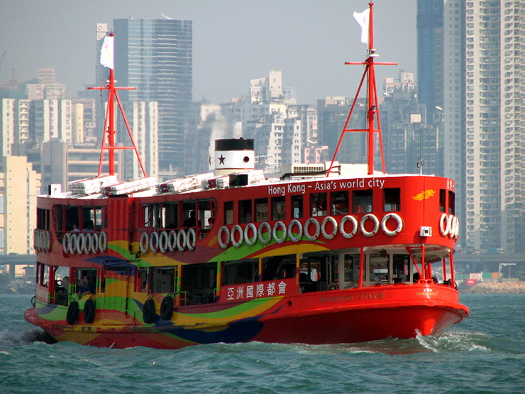 Morning Star